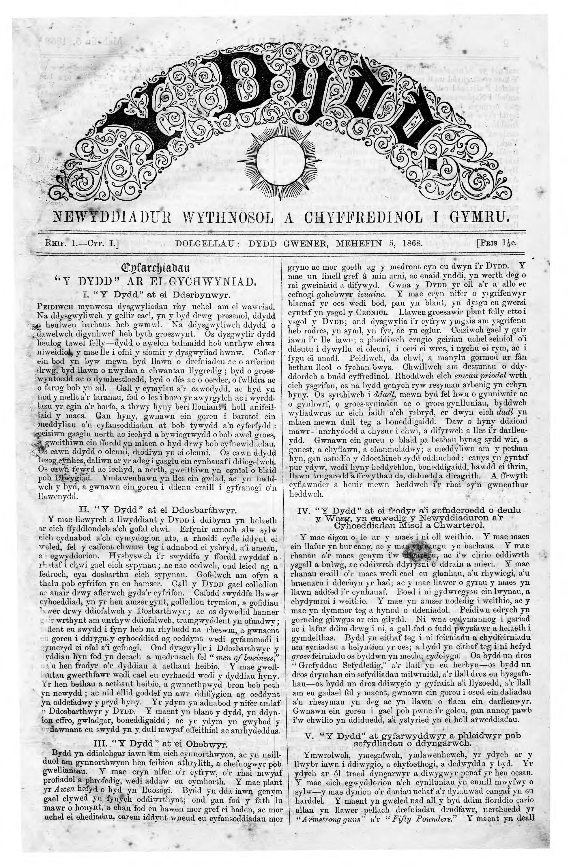 Front page of the earliest surviving copy of the Welsh newspaper Y DyddCymraeg: Tudalen flaen y copi cynharaf sydd yn bodoli o'r papur newydd Cymraeg Y Dydd